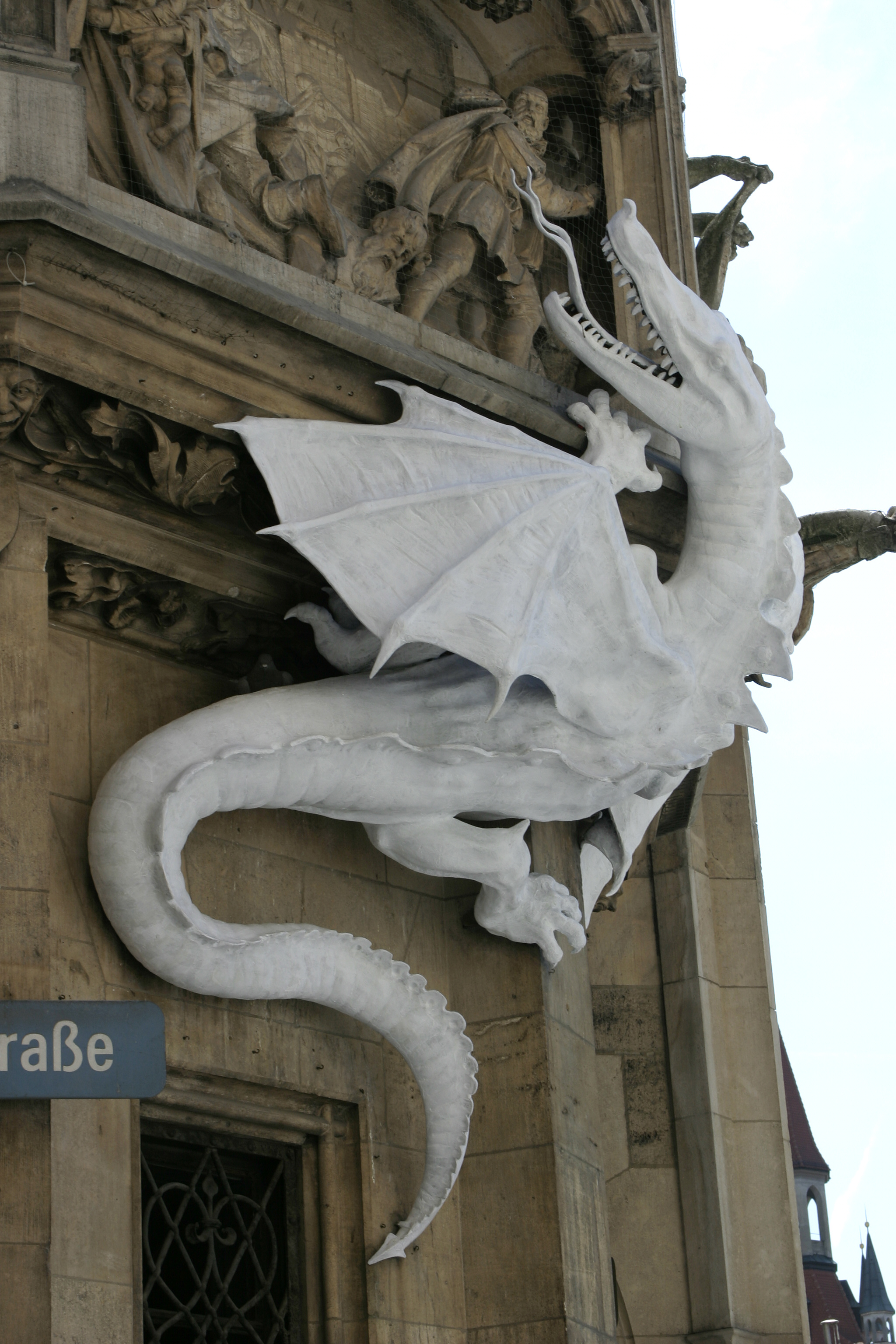 Munich - Dragon on the city hall building